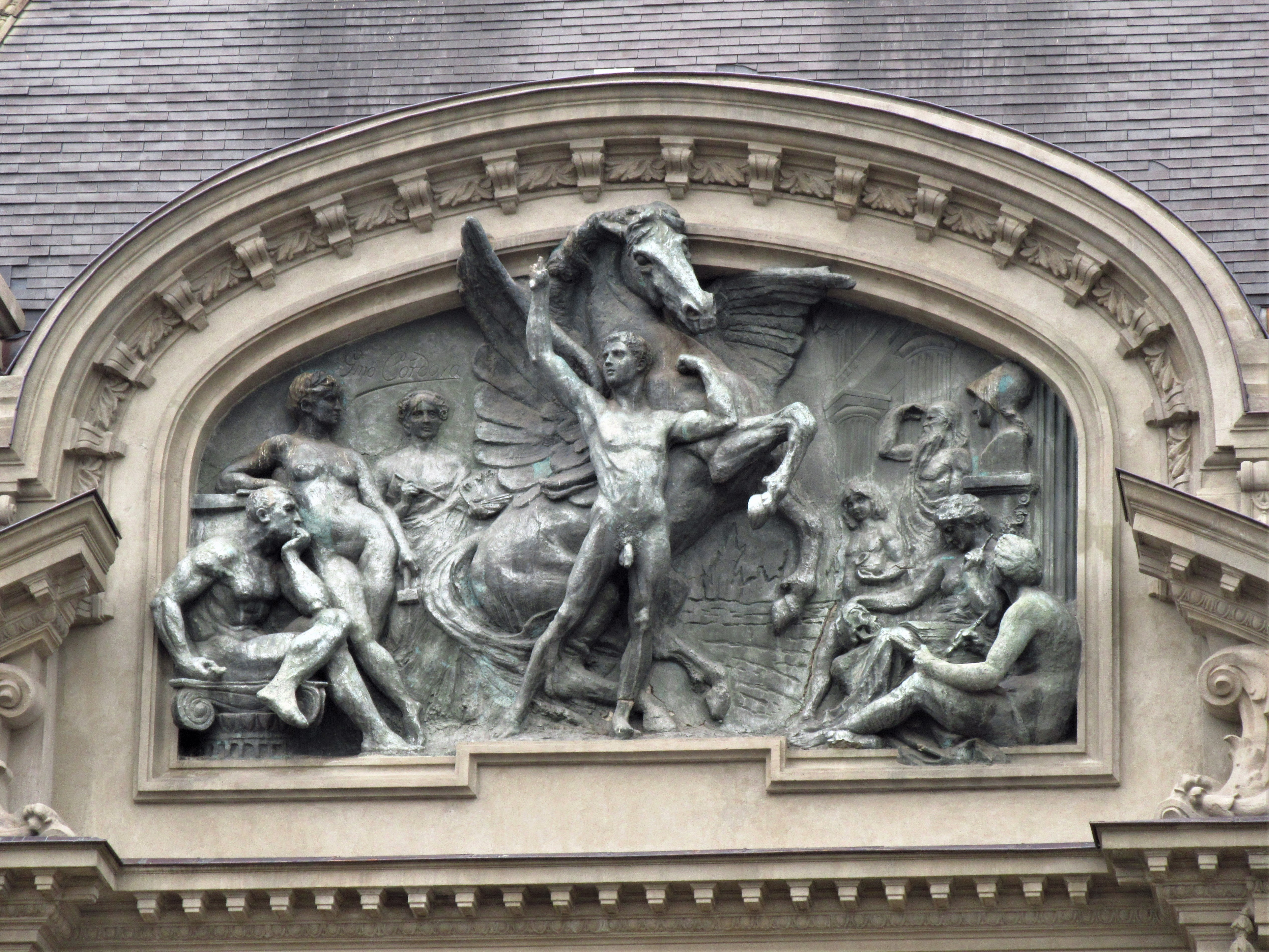 2017 in Santiago de Chile. Obra de Guillermo Córdova